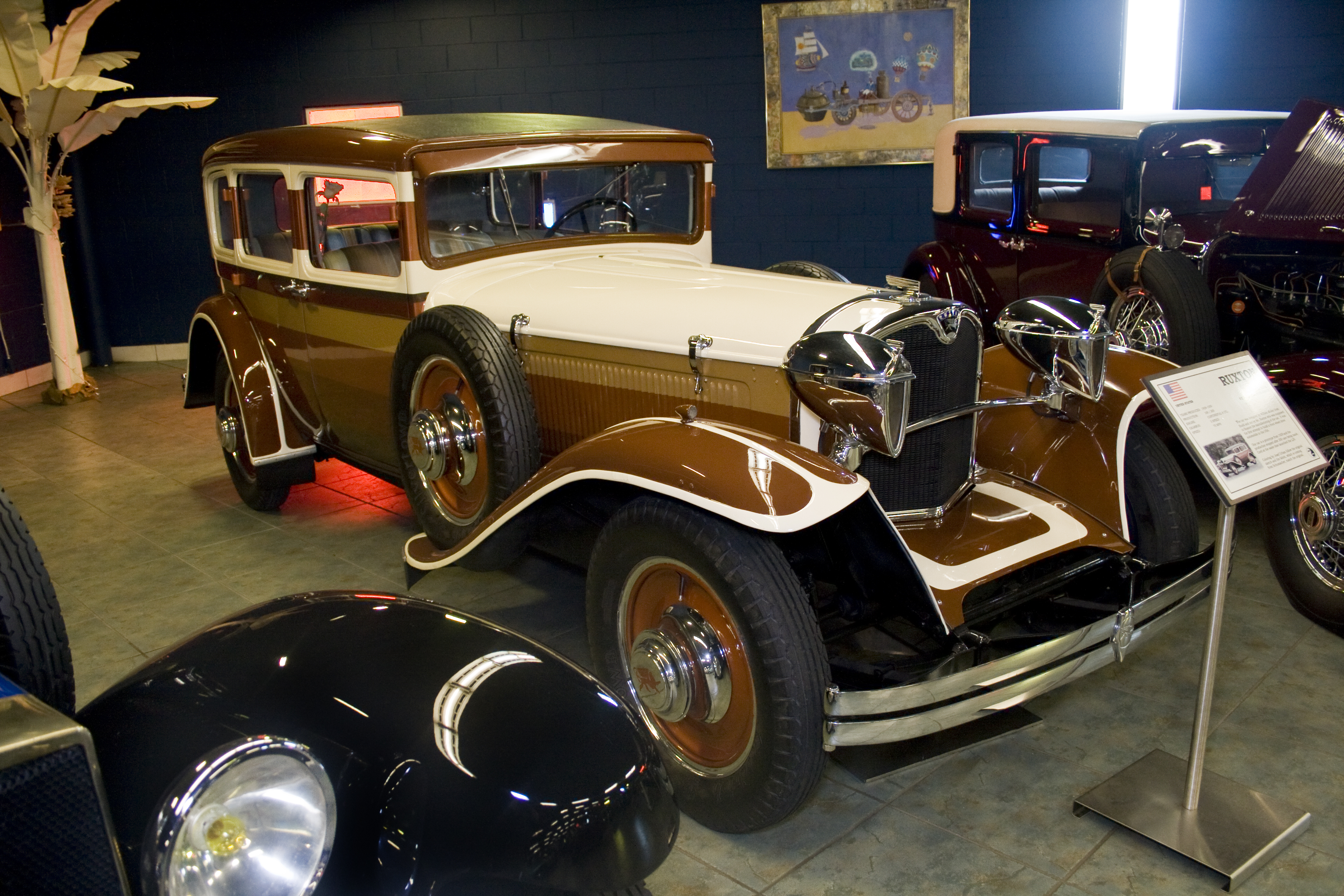 One of the earliest production FWD cars.